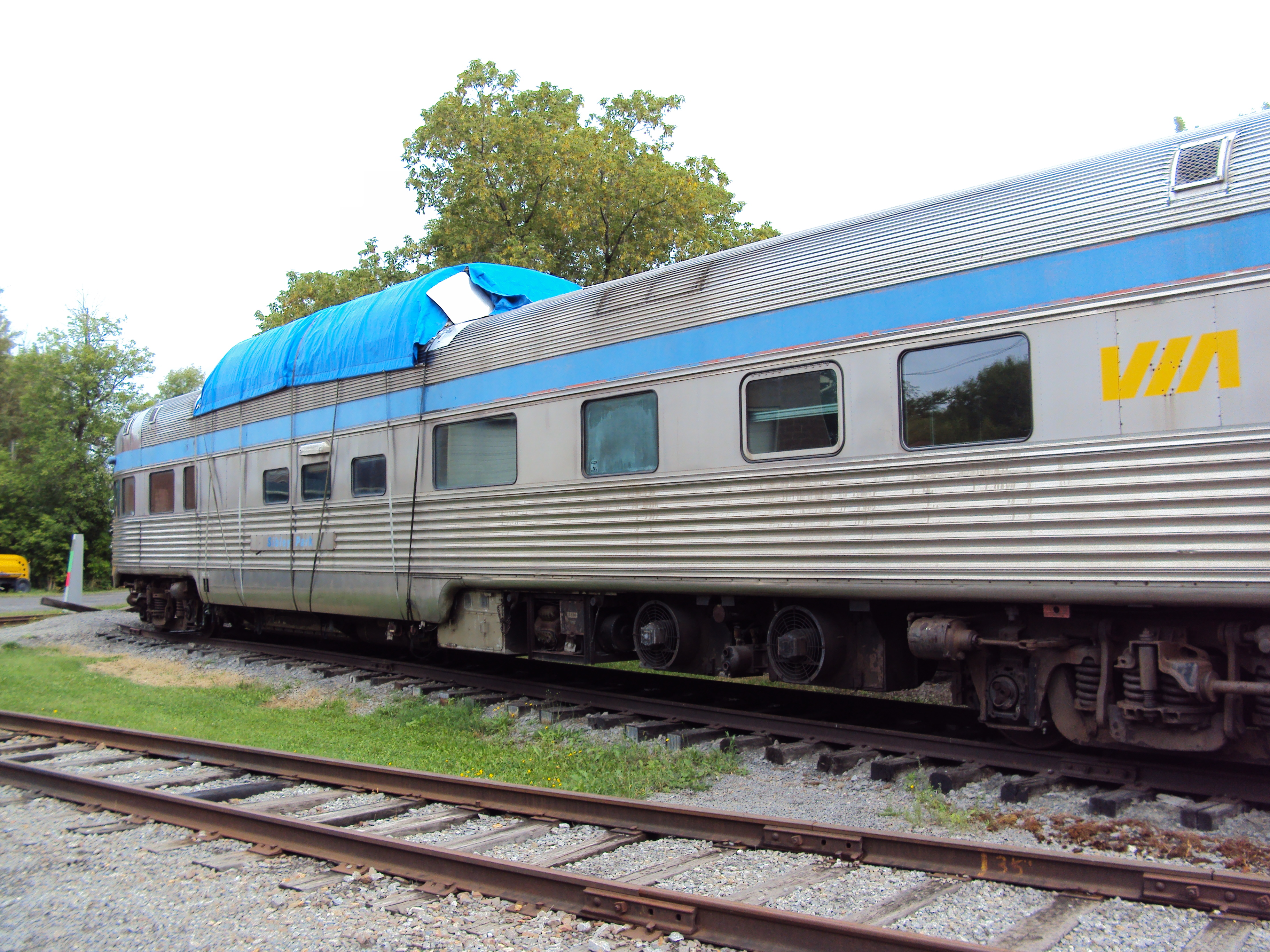 Via Rail voiture parc sibley at exporail museum